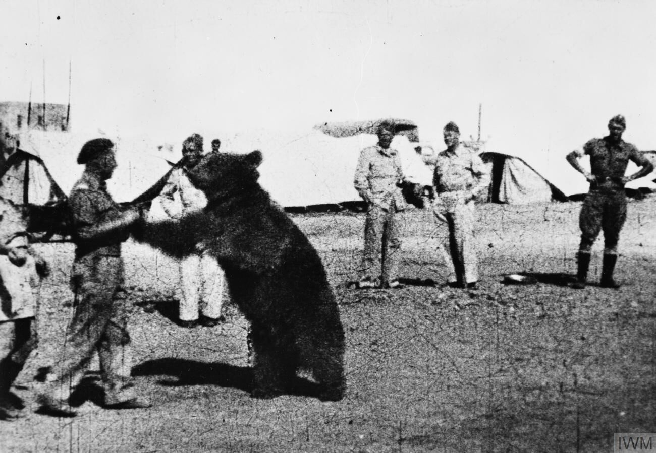 Troops of the Polish 22 Transport Artillery Company (Army Service Corps, 2nd Polish Corps) watch as one of their comrades play wrestles with Wojtek (Voytek) their mascot bear.